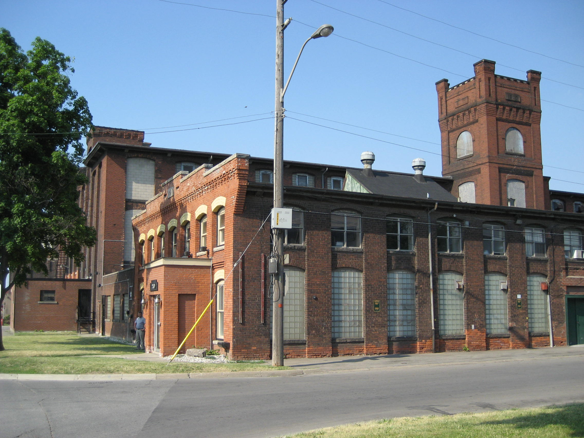 270 Sherman (former Imperial Cotton Company complex), Sherman Ave. North, Hamilton, Ontario